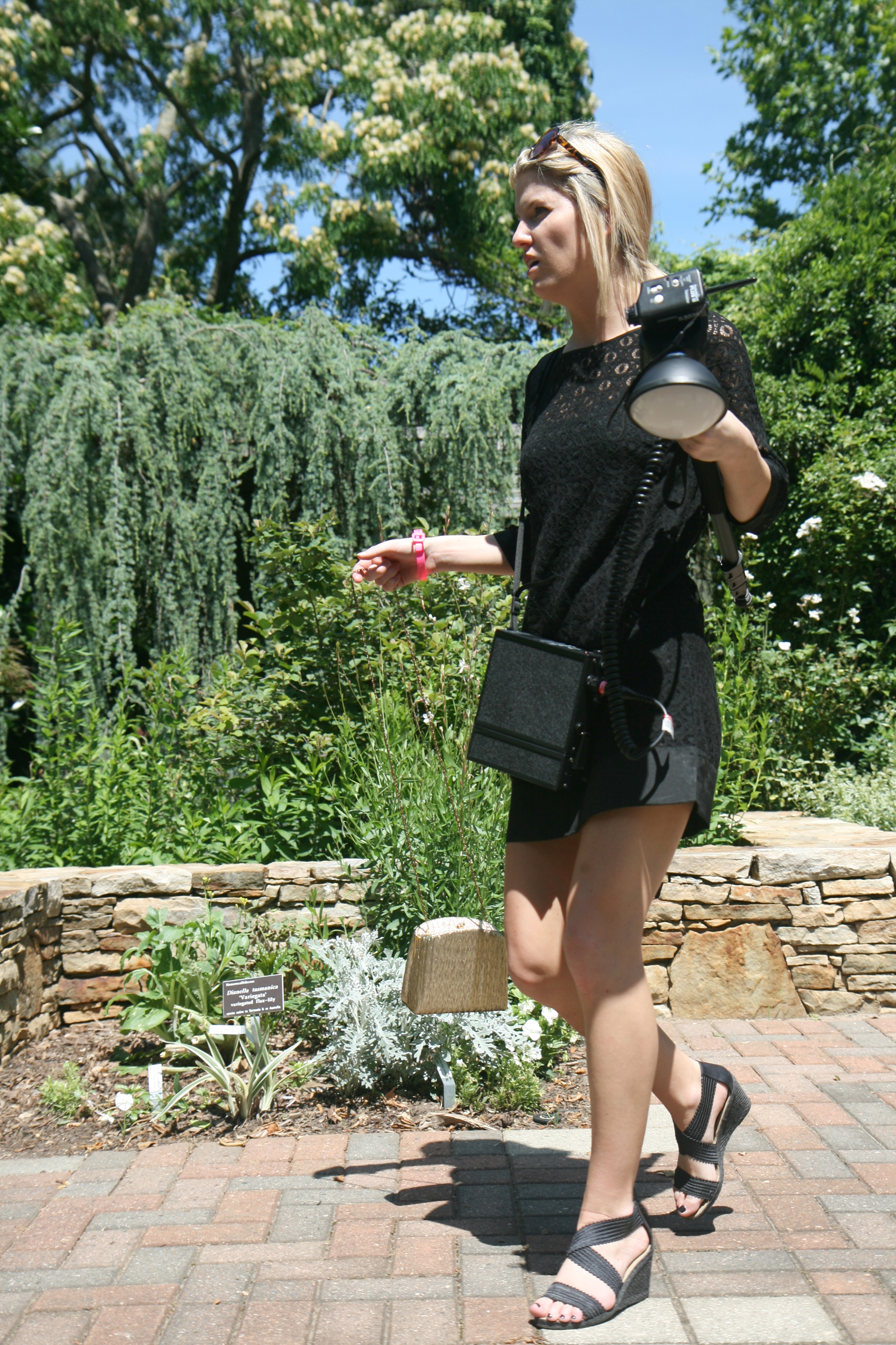 A helper photographer carrying gear at a wedding held at the J. C. Raulston Arboretum in Raleigh, North Carolina.